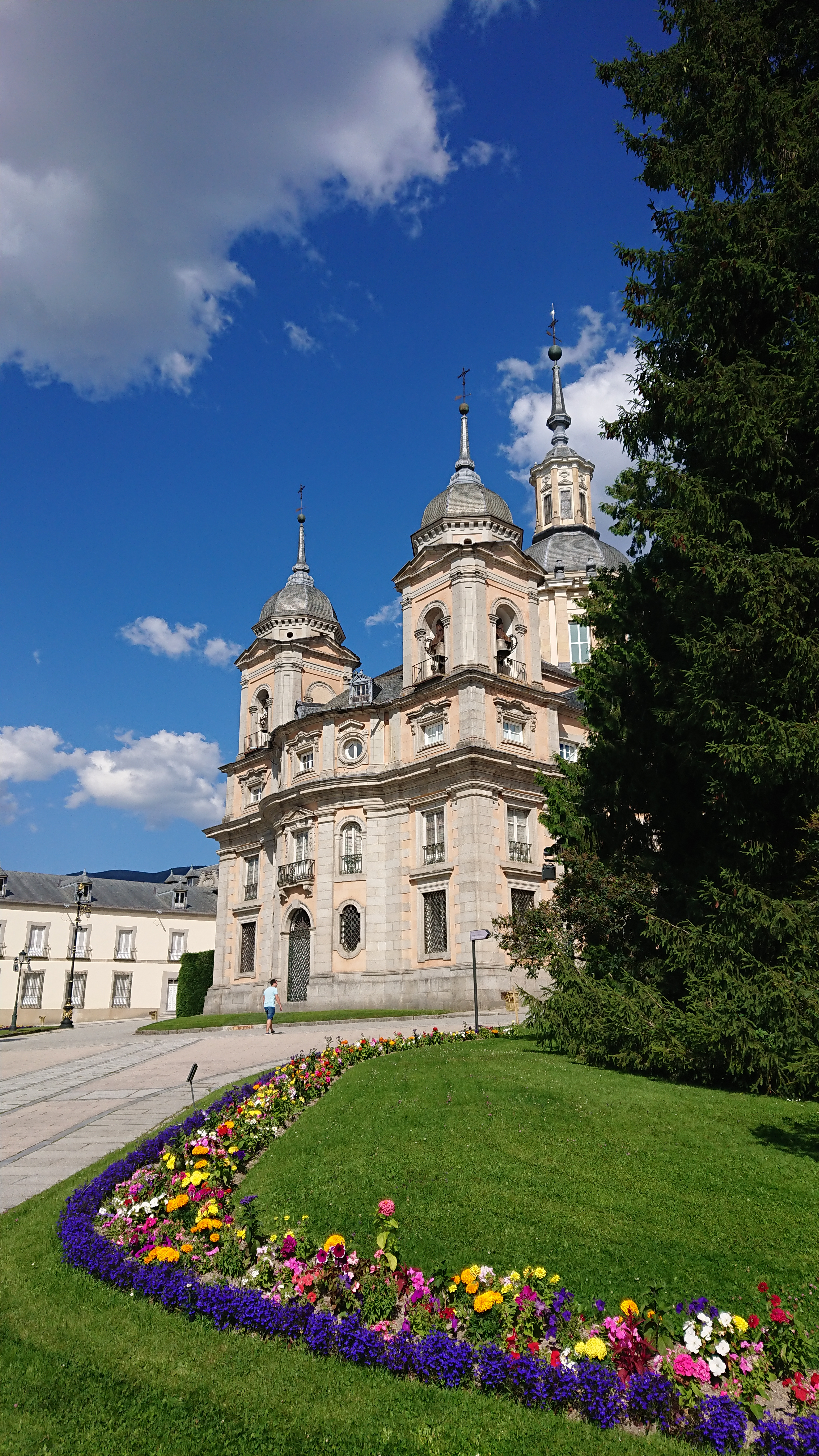 Royal Chapel at La Granja de San Ildefonso (Spain)